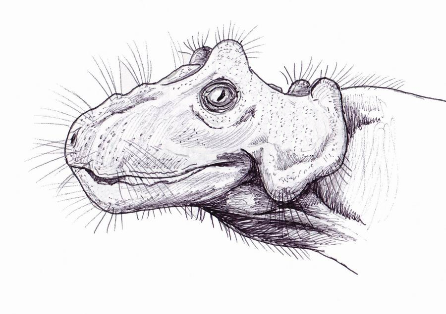 Paraburnetia head